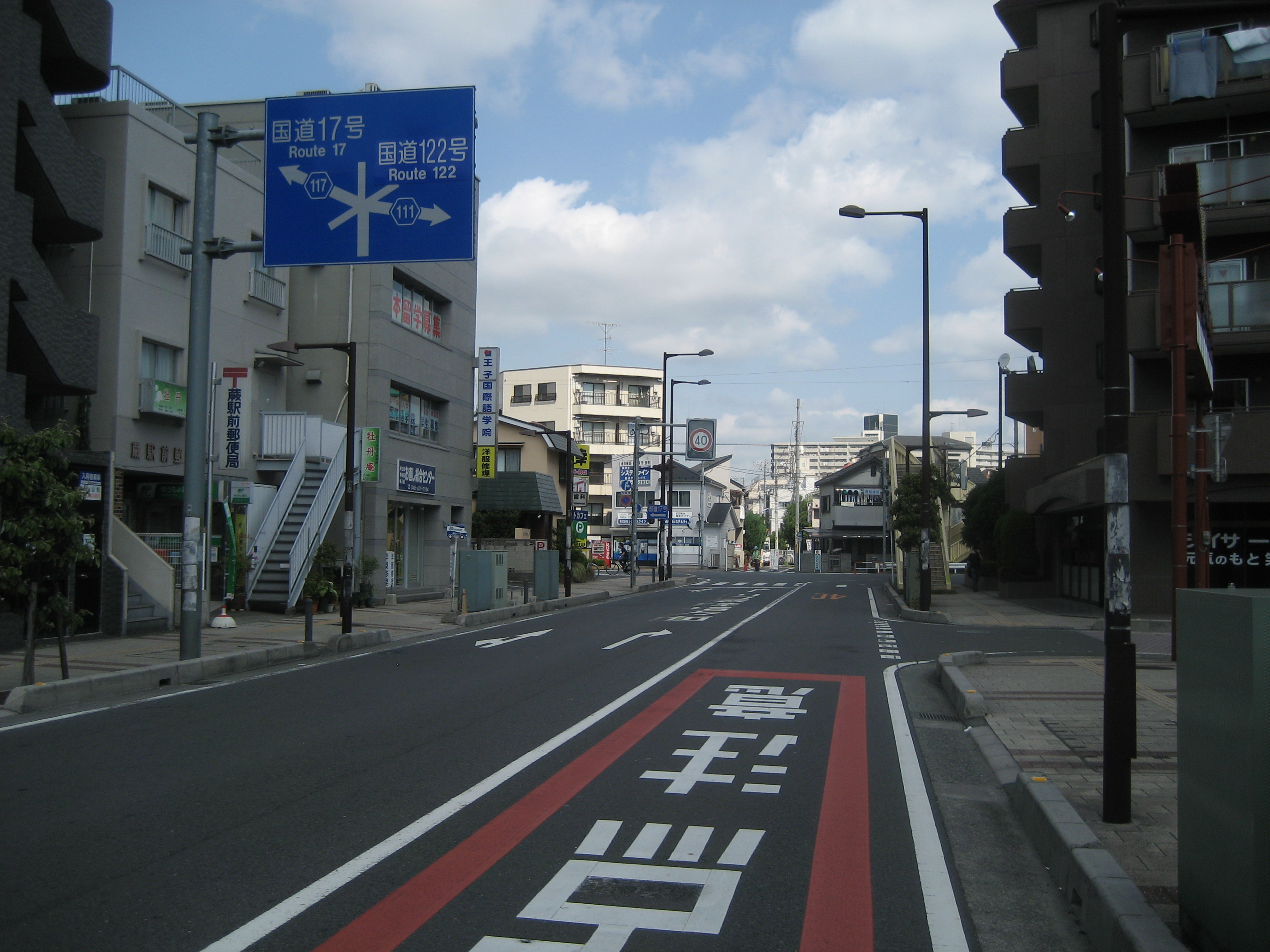 The Saitama Prefectural Road Route 117 at the Warabi Overbridge West Intersection